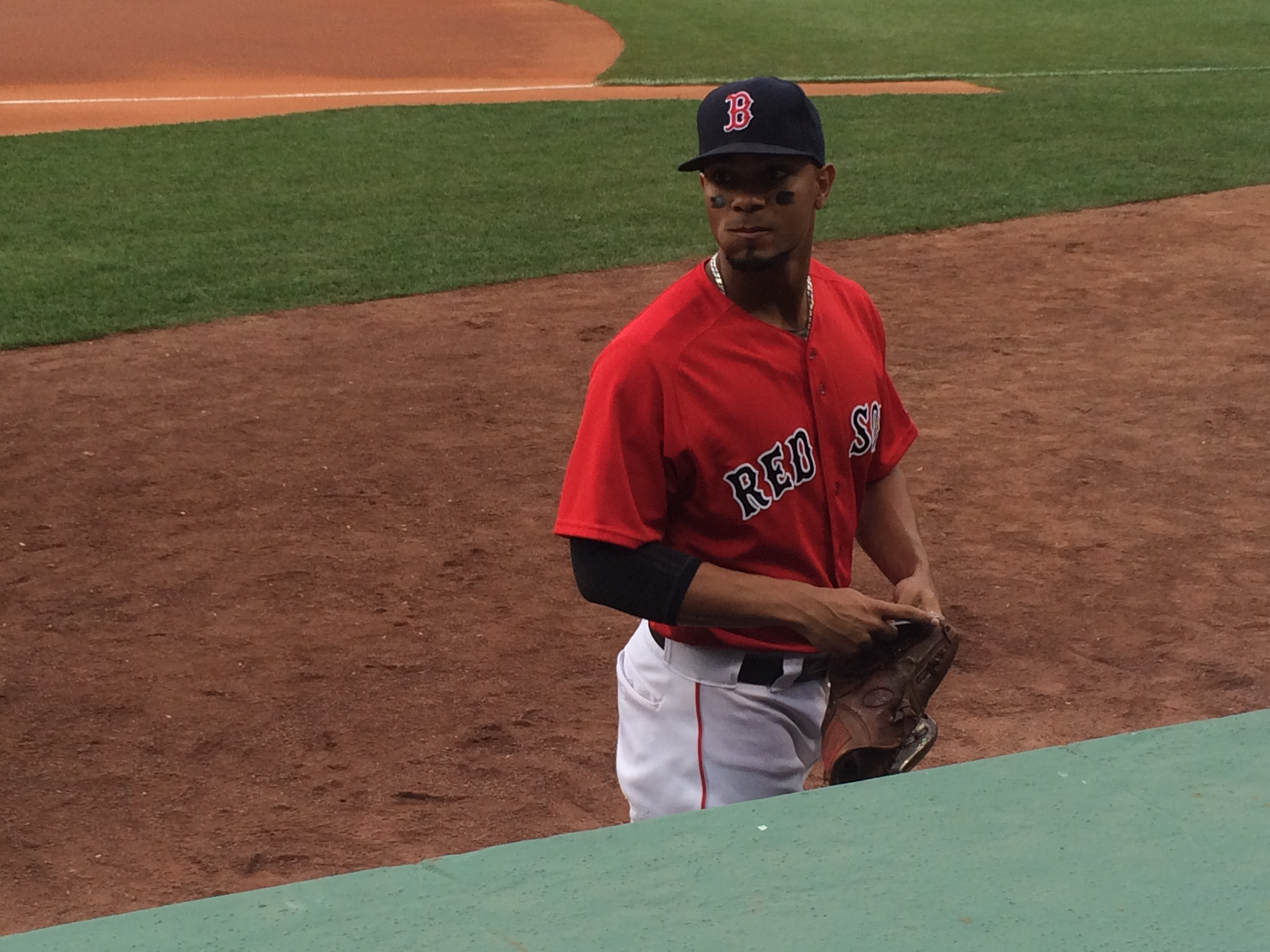 Bogaerts before a game on August 12, 2016 against the Arizona Diamondbacks